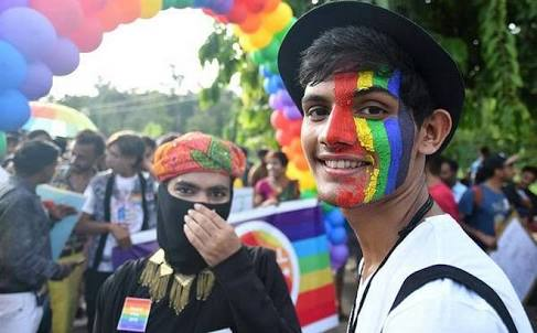 Queermitra LGBT pride